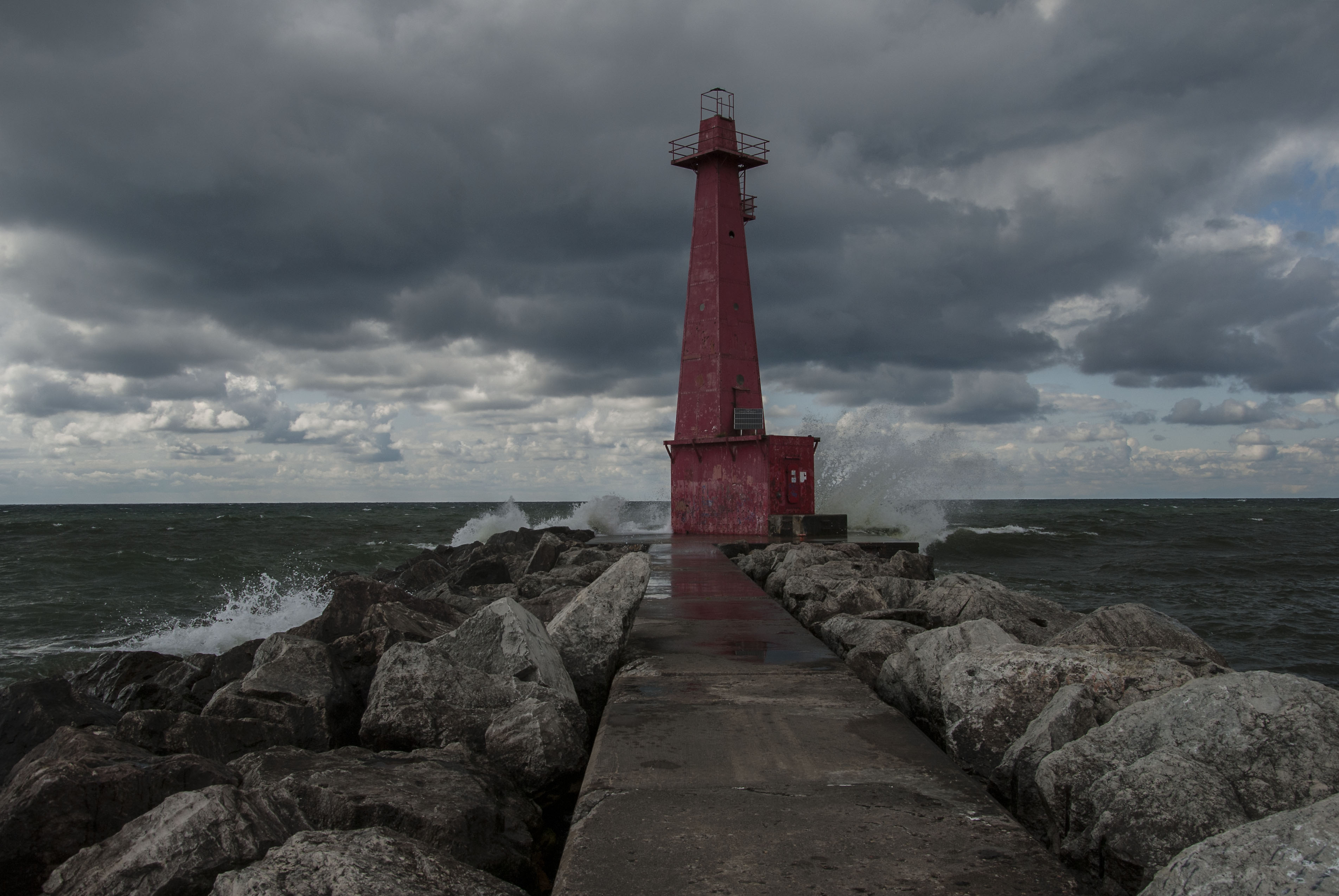 The Muskegon Breakwater Light or South Breakwater Light is a light located on the end of the south arm of the Muskegon breakwater surrounding the mouth of the Muskegon channel in Muskegon, Michigan.